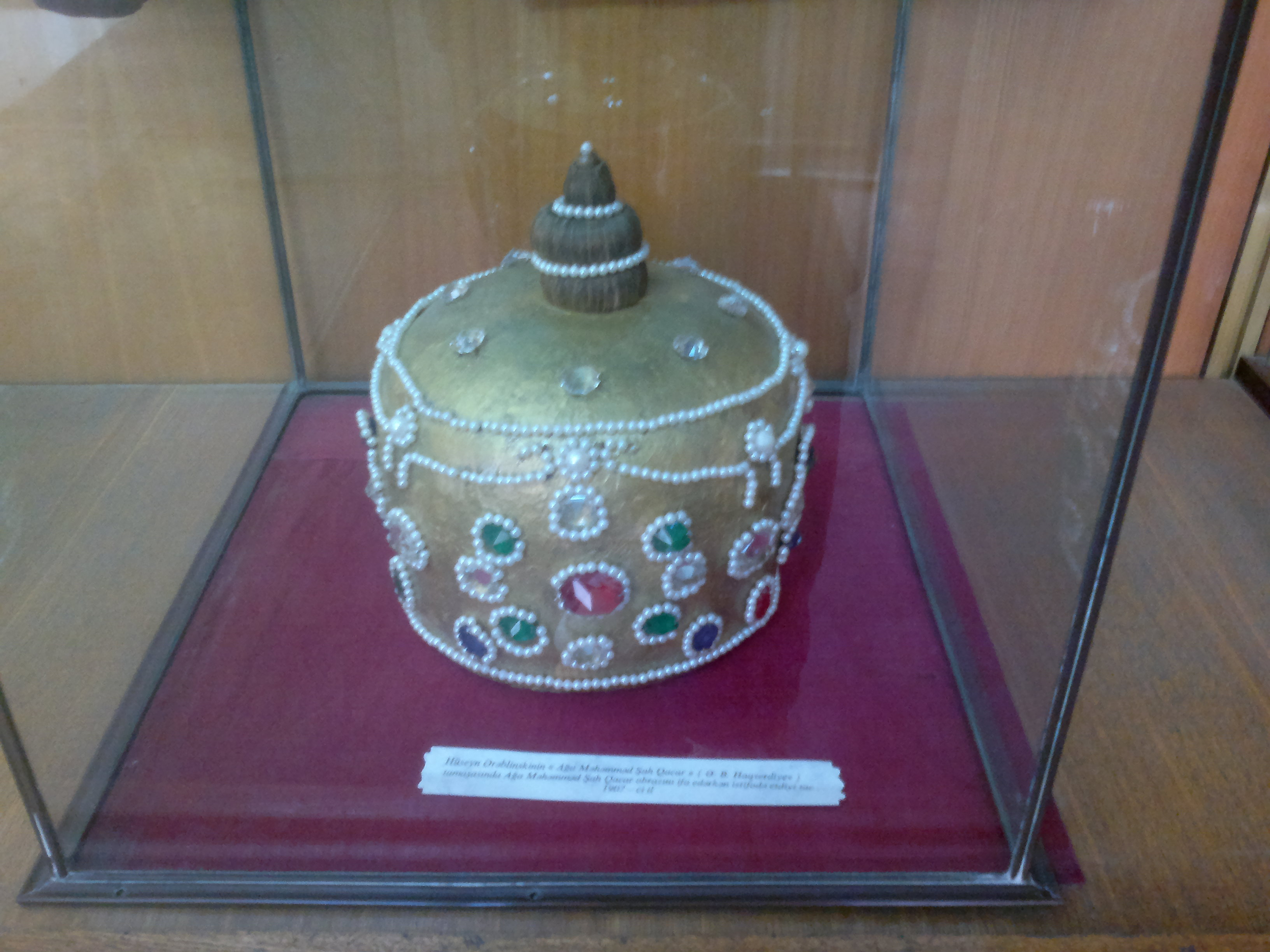 Crown of Agha Muhammad Qajar role belonged to Arablinski. Azerbaijan State Theater Museum.